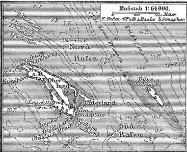 Historical map of Heligoland/Germany